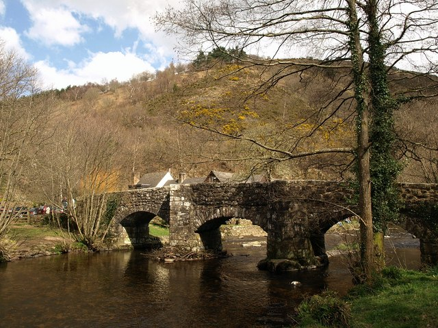 Fingle Bridge. Like 438994, a view from upstream on the right bank. The C16 or C17 bridge is described at . The bridge and its surroundings were the subject of an early GWR jigsaw . Behind rises Prestonbury Down, crowned by an Iron Age hill fort.